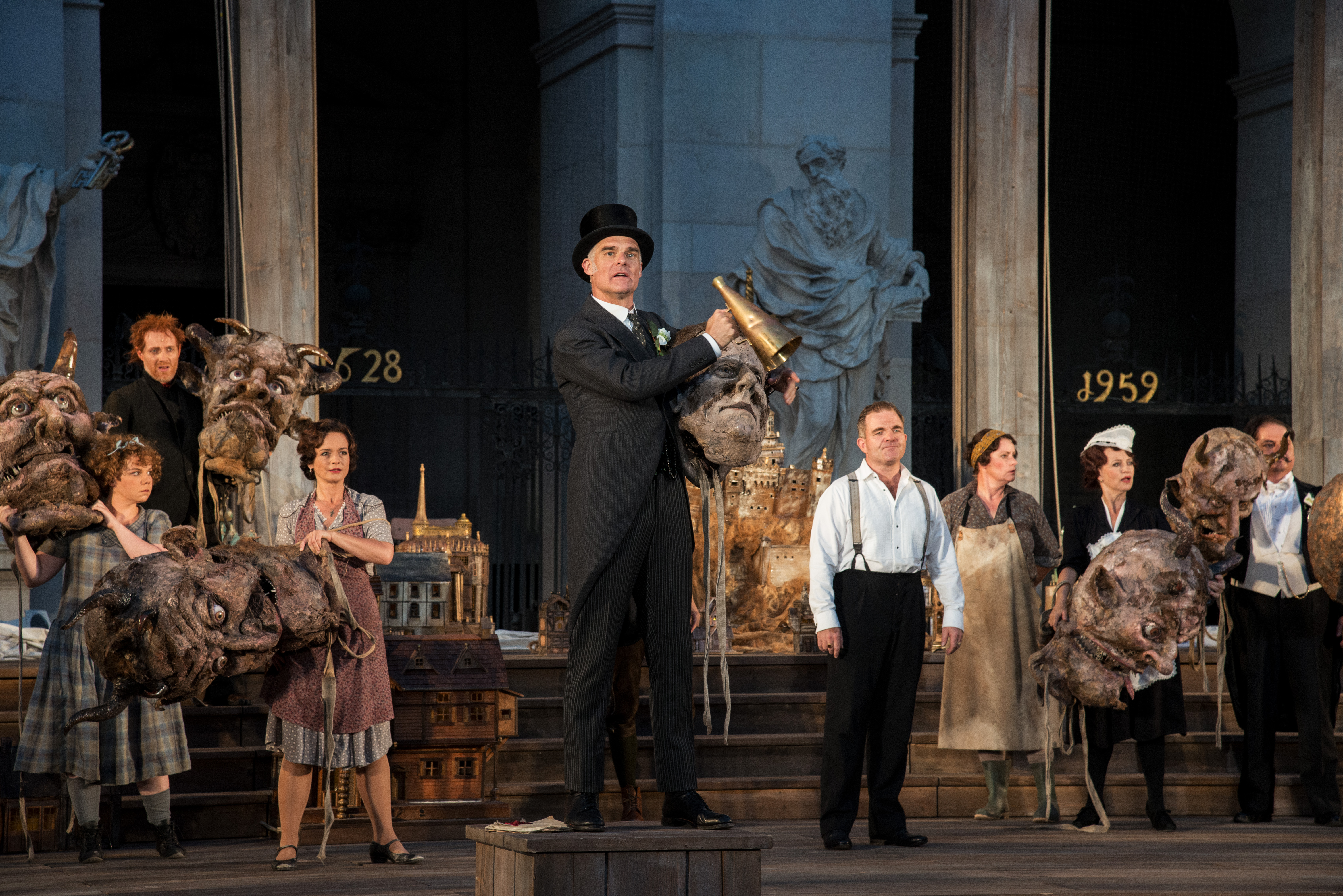 Jedermann, Salzburg Festival 2014, opening scene with most of the ensemble